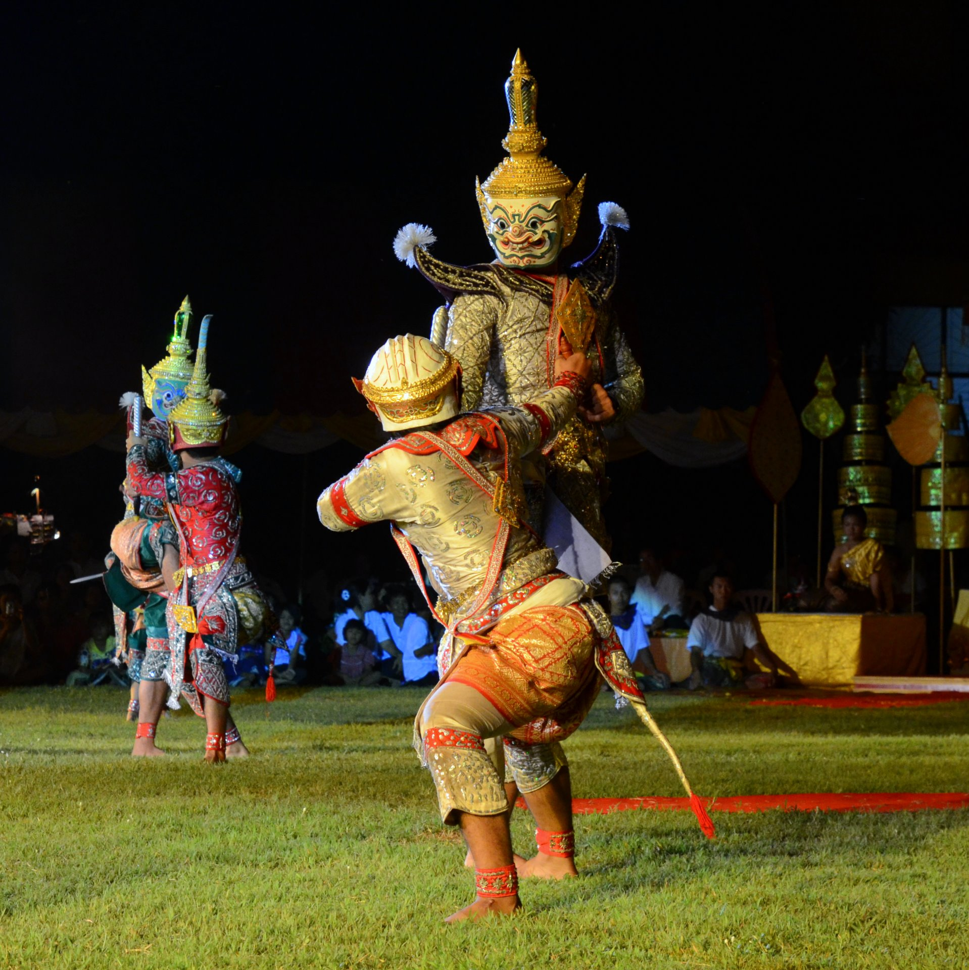 The Atthami Bucha Festival is held each year at "Wat Phra Borom That Thung Yang" in Thung Yang village, along road 102, just a few kilometres west of Uttaradit, commemorating the cremation of the Buddha.